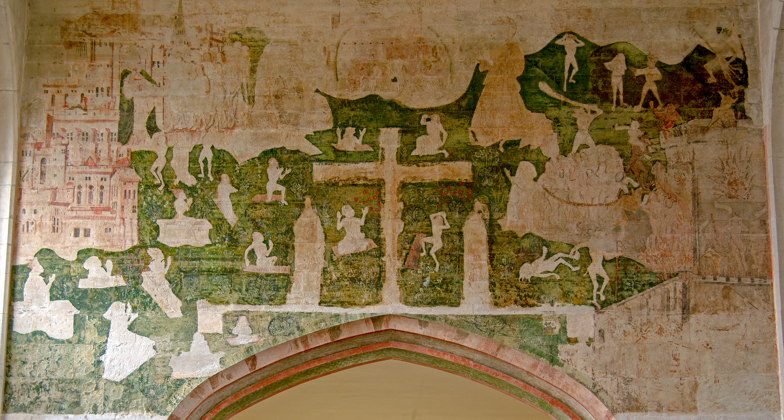 Some of the recently uncovered medieval wall paintings